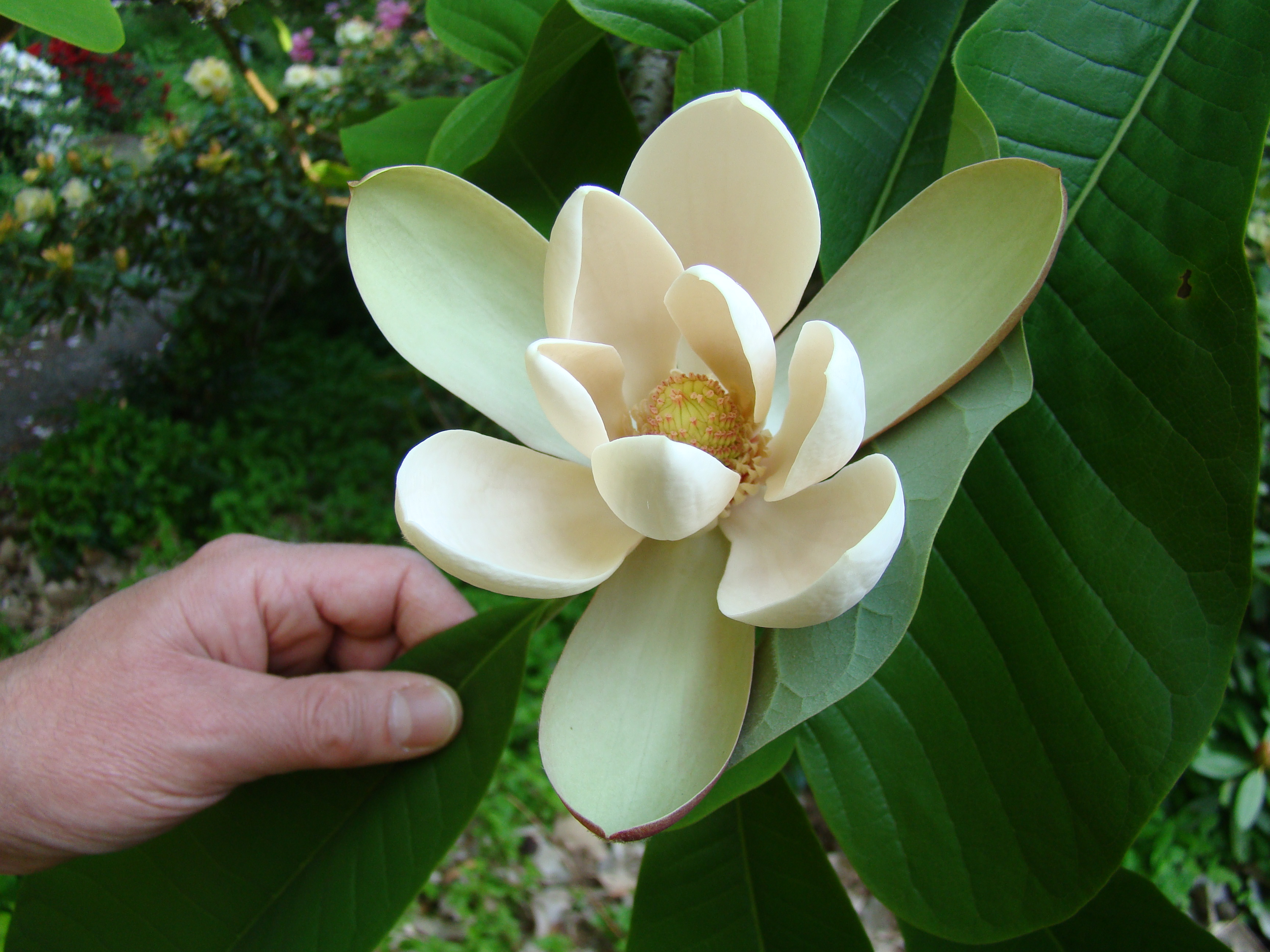 Magnolia officinalis biloba, at the Washington Park Arboretum